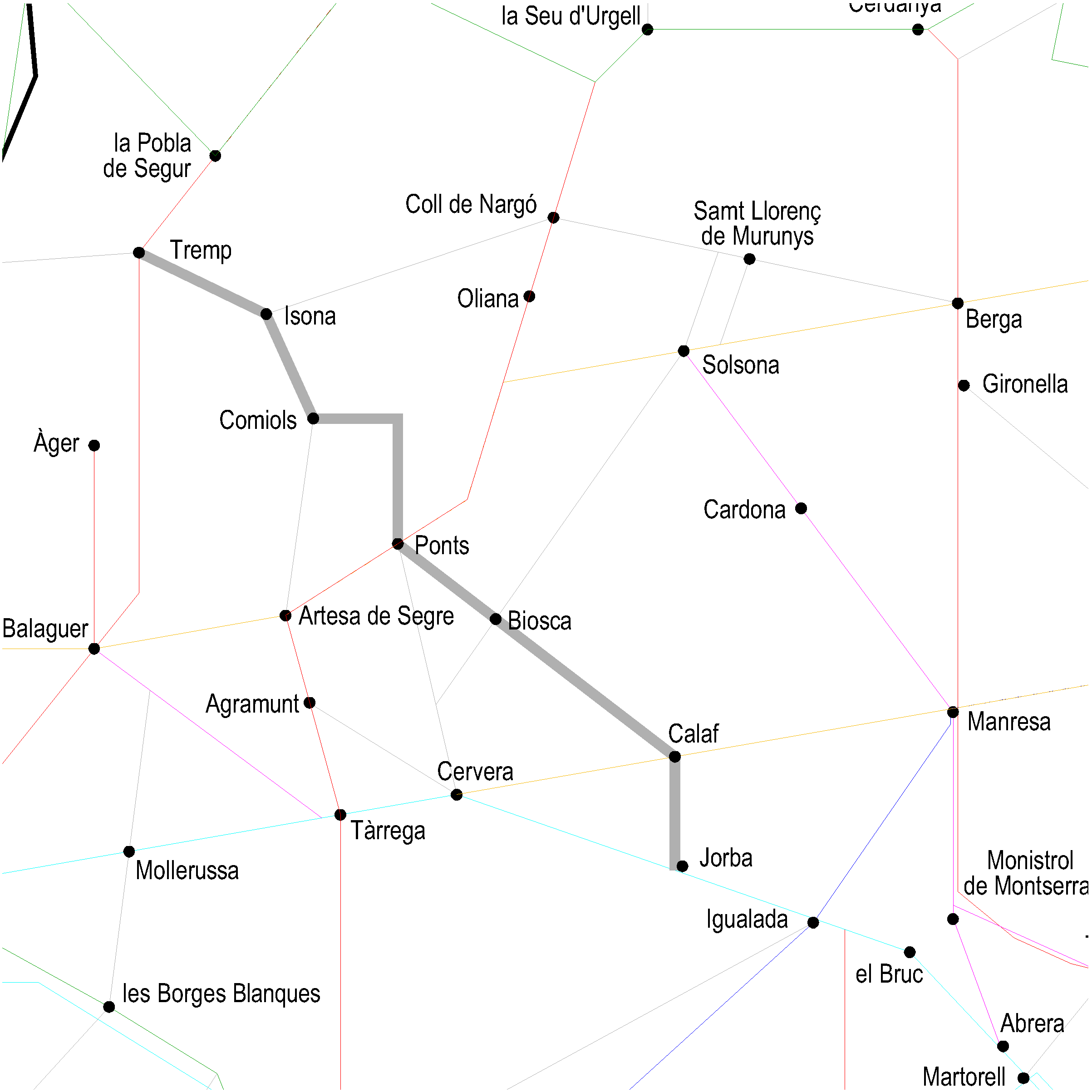 C-1412 Road in a Road scheme of Catalonia